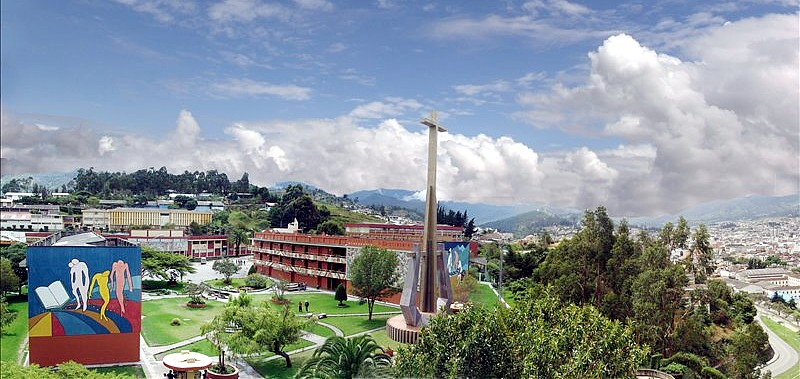 Technical Particular University of Loja, Ecuador, South America. Photo 01